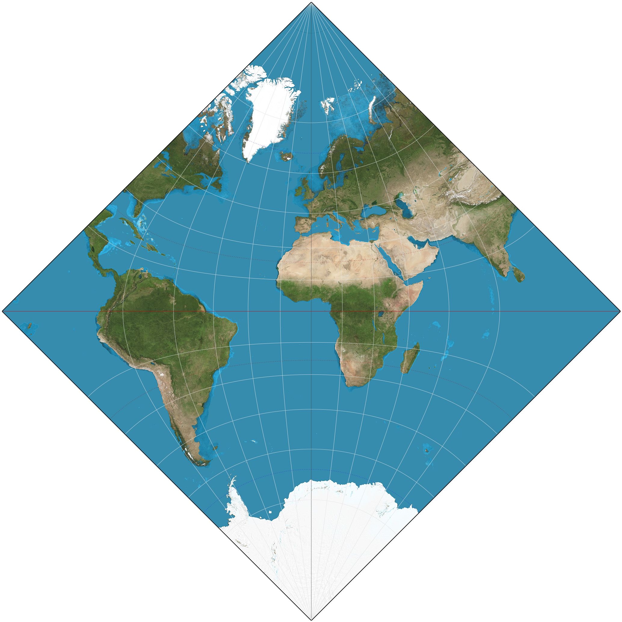 Adams hemisphere in a square projection. 15° graticule. Imagery is a derivative of NASA’s Blue Marble summer month composite with oceans lightened to enhance legibility and contrast. Image created with the Geocart map projection software.